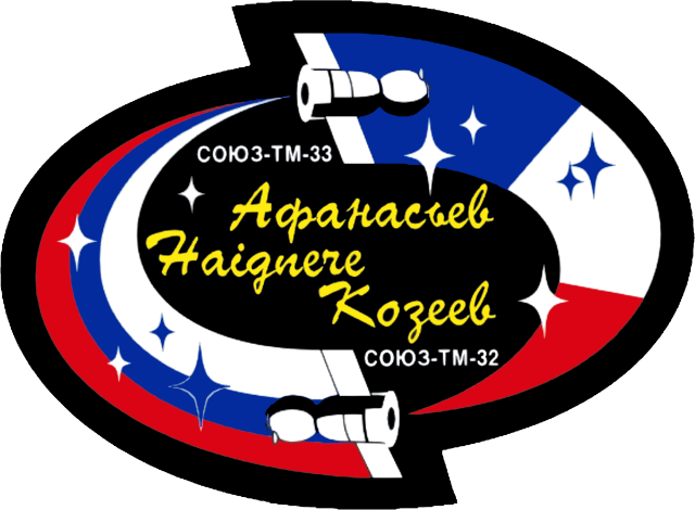 Official crew patch of Soyuz TM-33